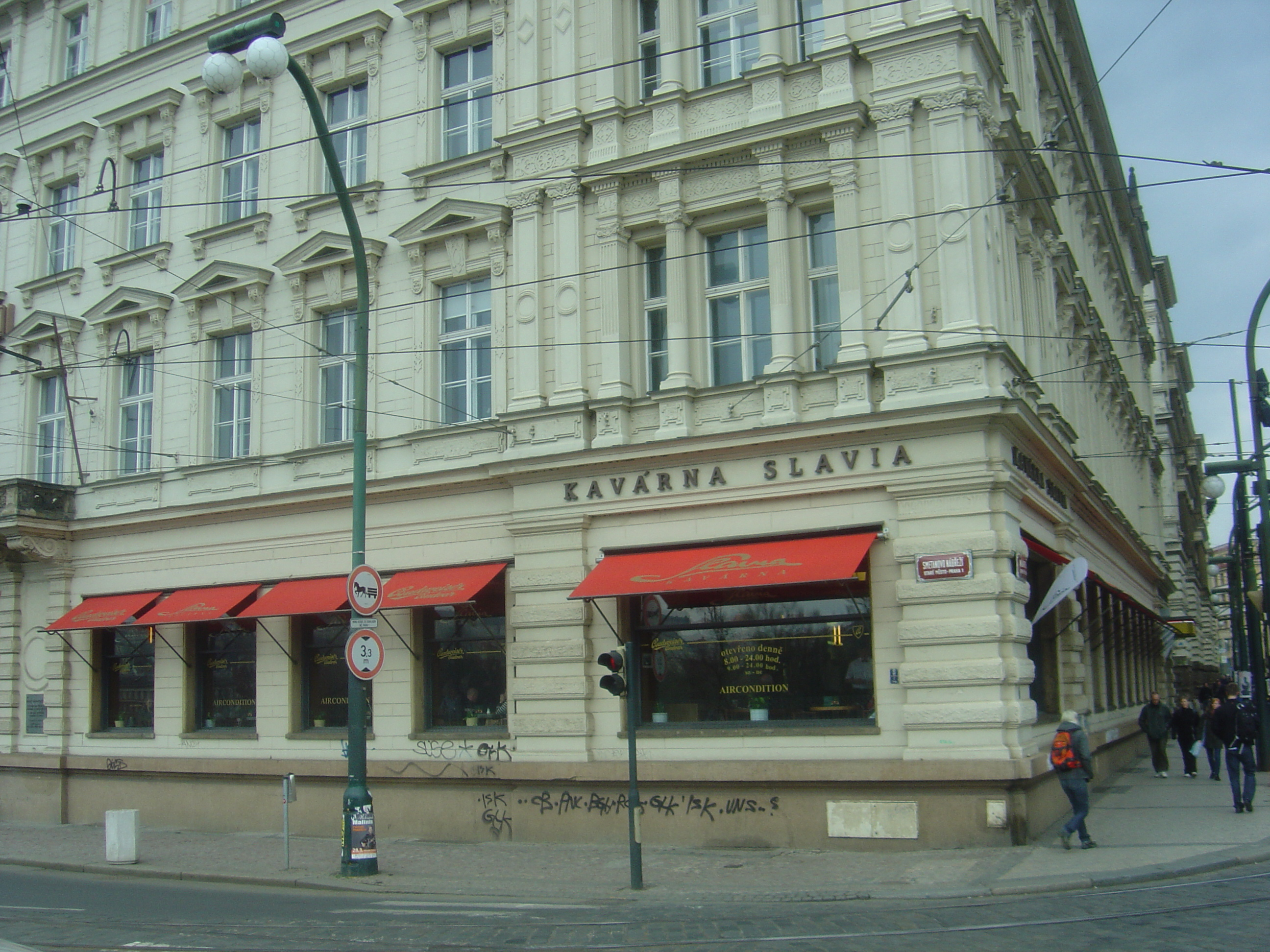 Cafe Slavia in Prague